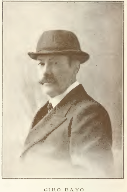 Ciro Bayo (Spanish writer)